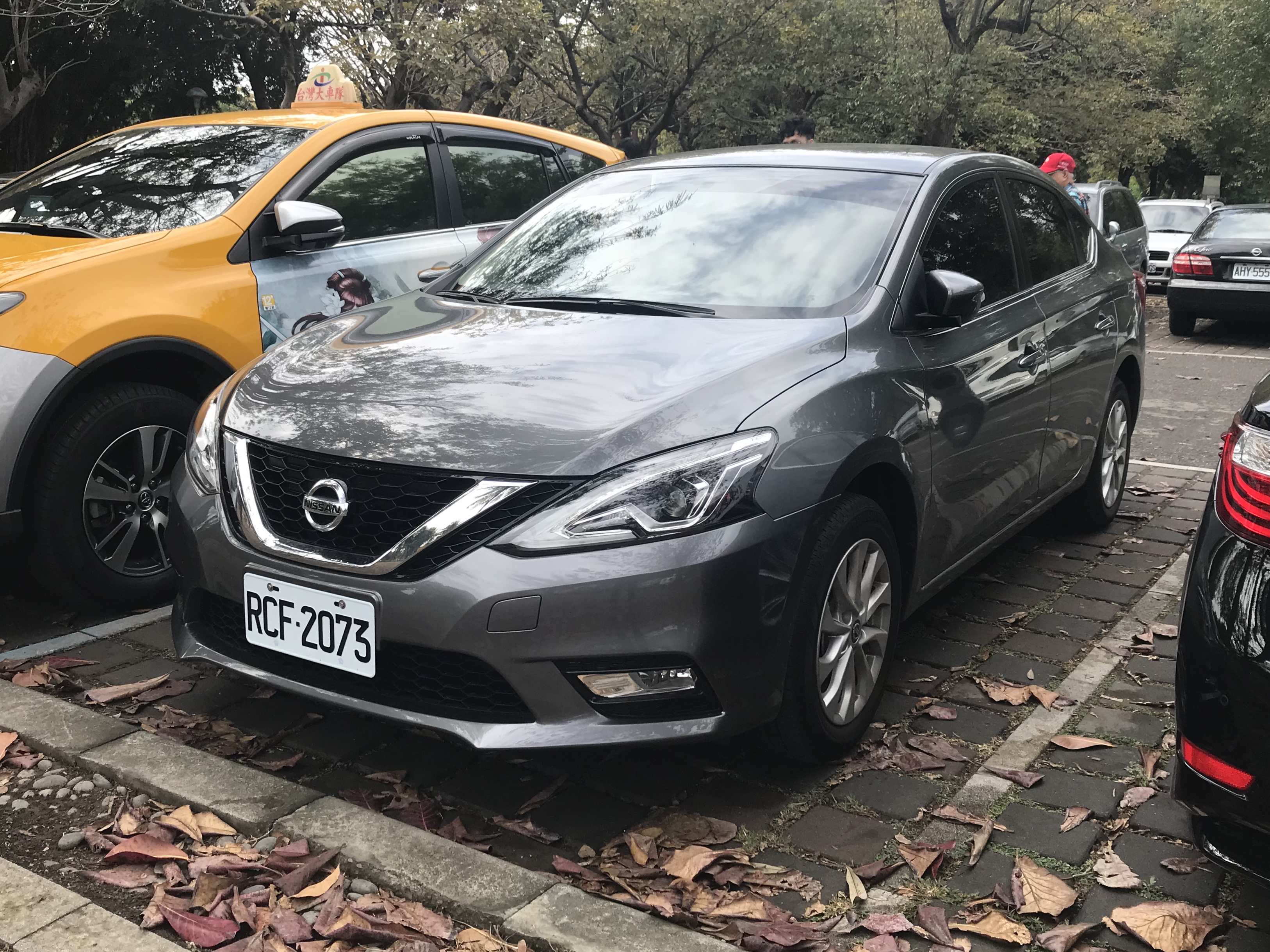 Nissan Sentra B17 Taiwanese facelift